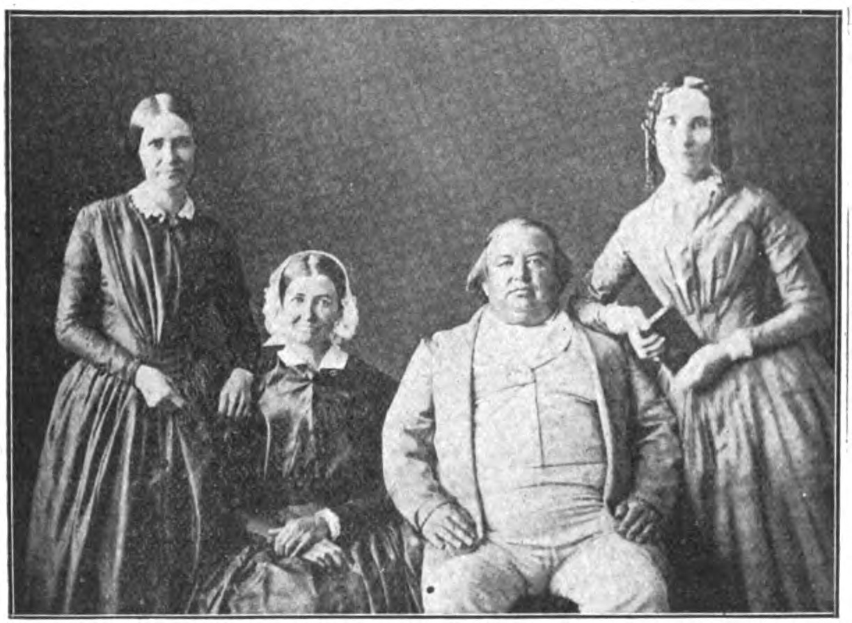 left to right, Mary A. Hand, Jane Terry, both sisters of John Brough, Brough, and Brough's second wife Caroline. from a daguerreotype from about 1860.